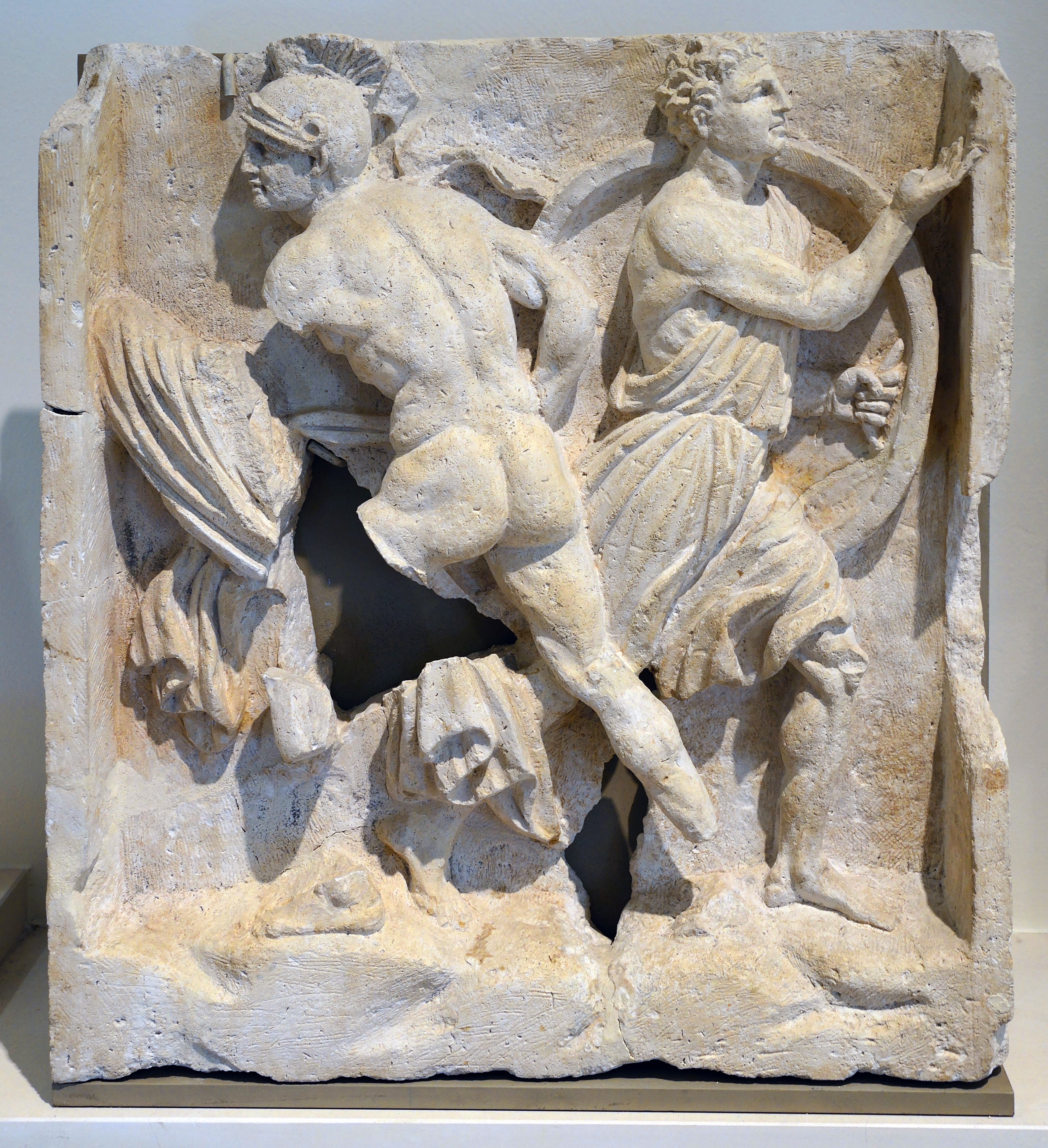 Metopa of funerary monument with solders in soft stone